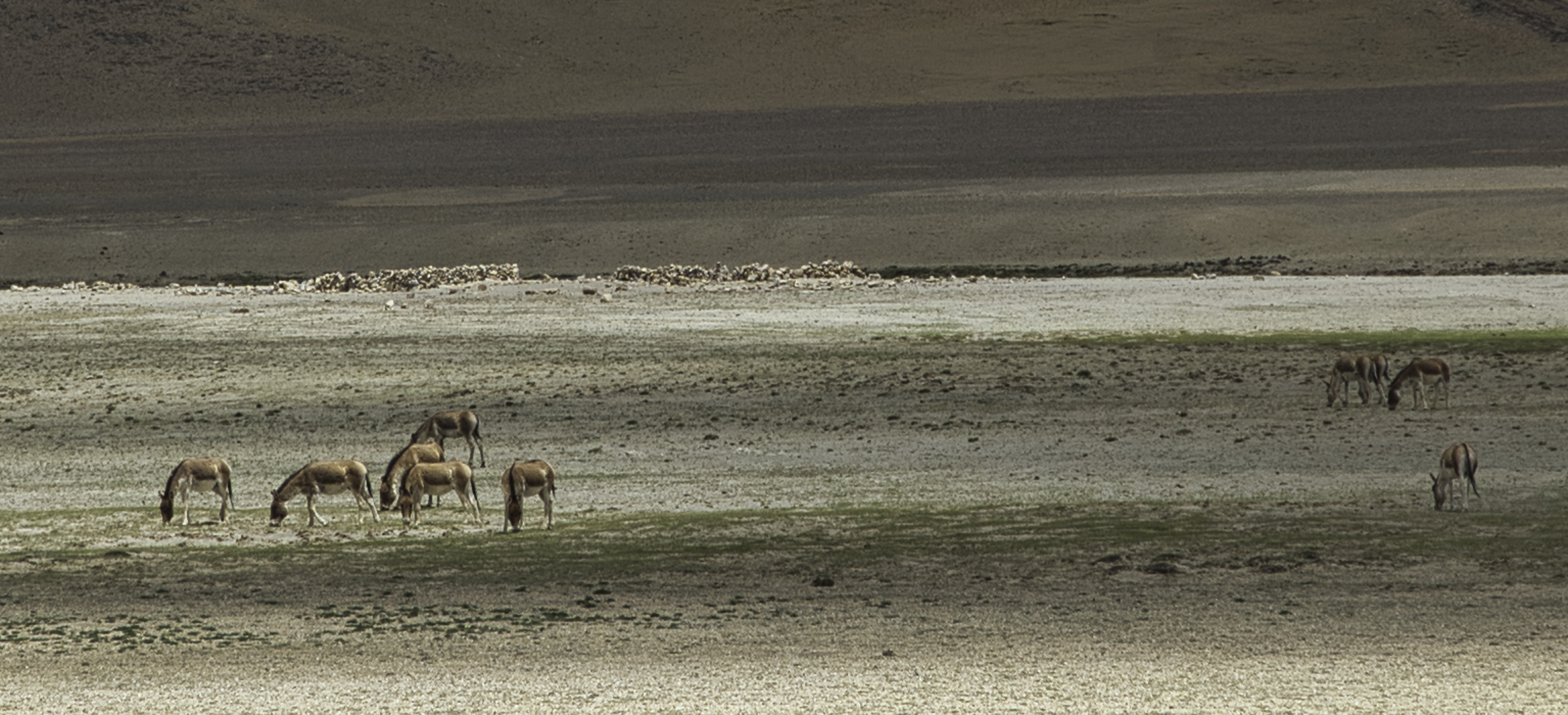 A herd of kiangs on the banks of the Lake Paiku, Shishapangma core zone, Tibet